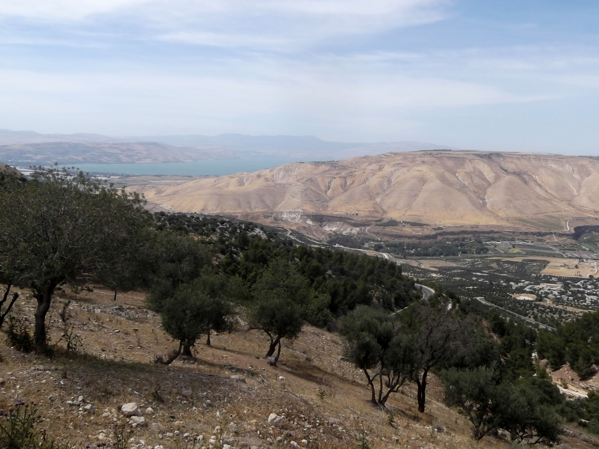 Natural view in Umm Qais, Jordan, and Sea of Galilee in the behind.